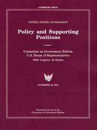 Cover the Plum Book